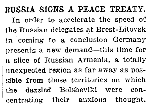 Russia Signs a Peace Treaty (The New York Times, 4 March 1918)